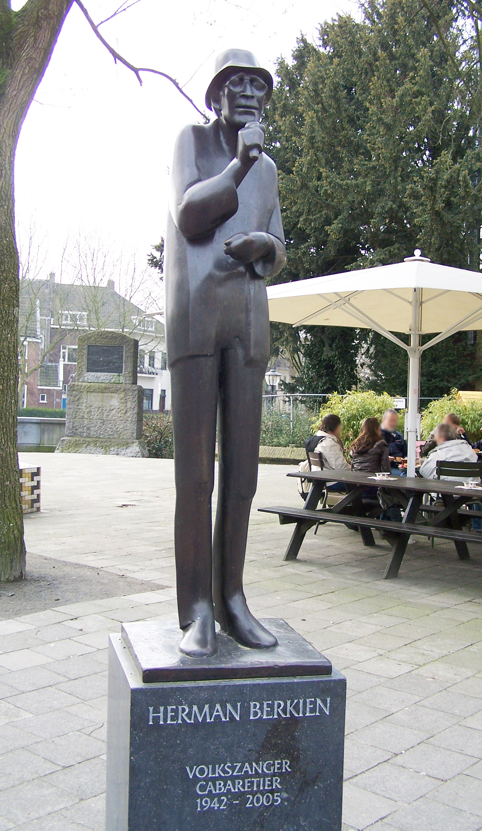 Statue of Herman Berkien near the Ledig Erf. Made by Frans Stelling in 2008.